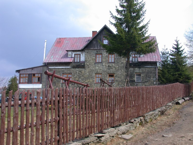 Beskid Śląski in Poland